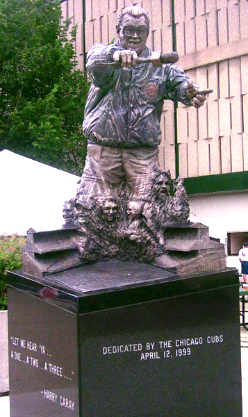 Legendary broadcaster Harry Caray statue outside of Wrigley Field, Chicago, 15 June 2005.